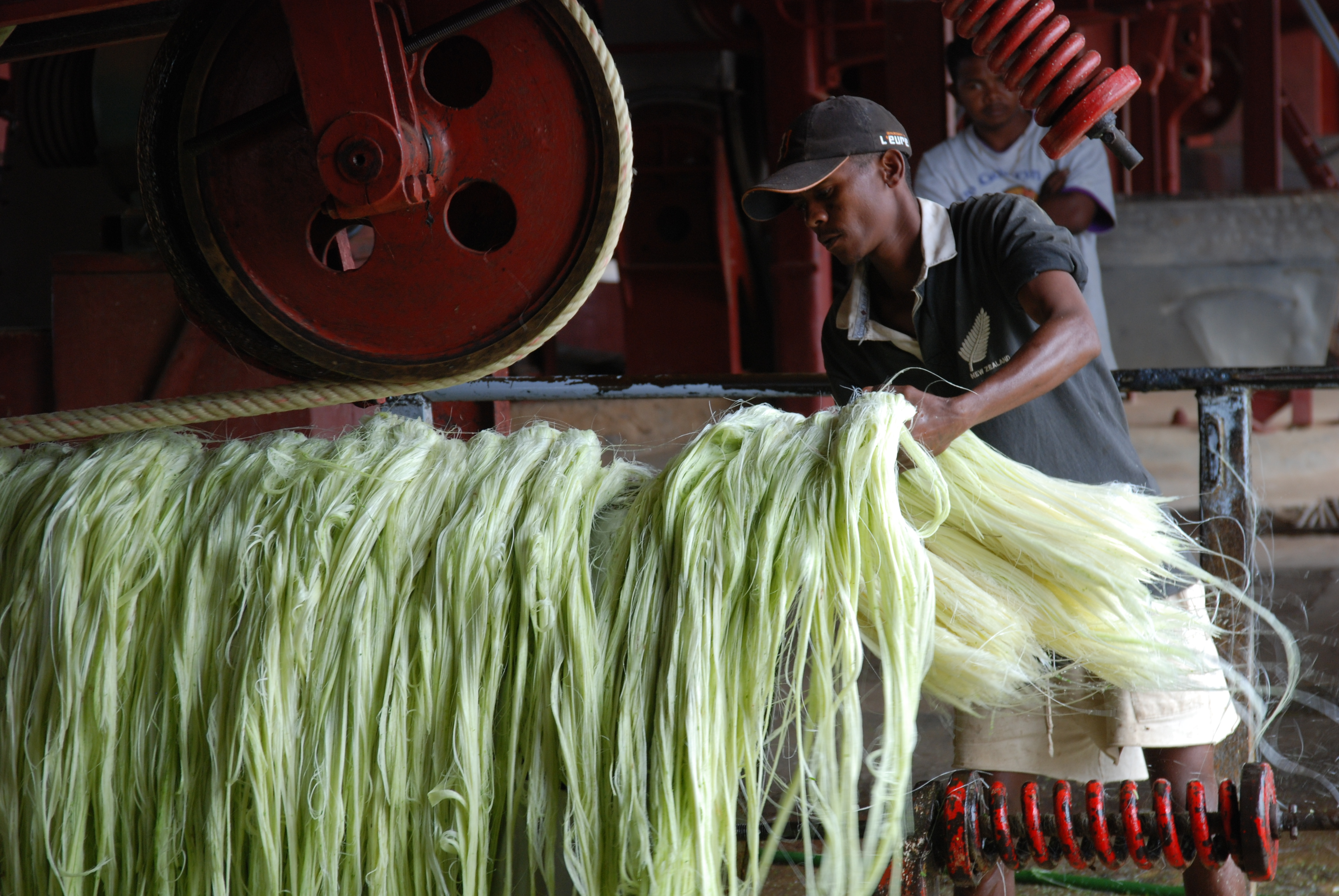 Sisal decortication machine in Madagascar. Photo by Jonathan Talbot, World Resources Institute, 2007.